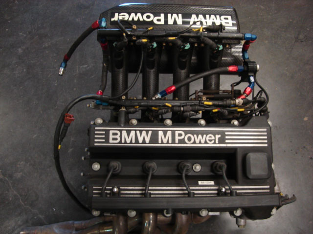 BMW S44B20 touring car engine